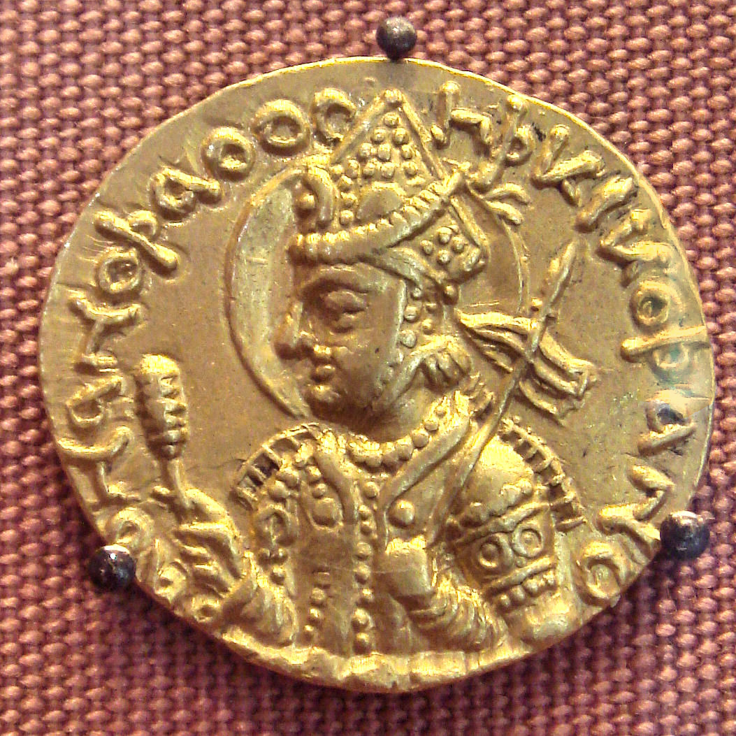 Coin of the Kushan king Huvishka. In the right hand he holds a mace sceptre and has a filleted spear over the left shoulder. Legend in Kushan language and Greek script (with the Kushan letter Ϸ "sh"): ϷΑΟΝΑΝΟϷΑΟ ΟΟΗϷΚΙ ΚΟϷΑΝΟ ("Shaonanoshao Ooishki Koshano"): "King of kings, Huvishka the Kushan". British Museum. Personal photograph.